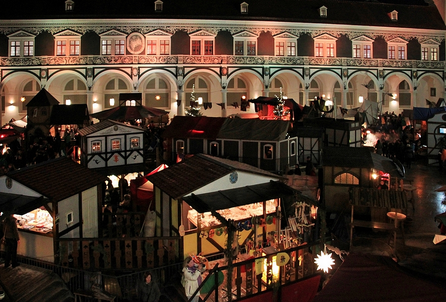 Christmas market in the Stallhof of Dresden Castle.